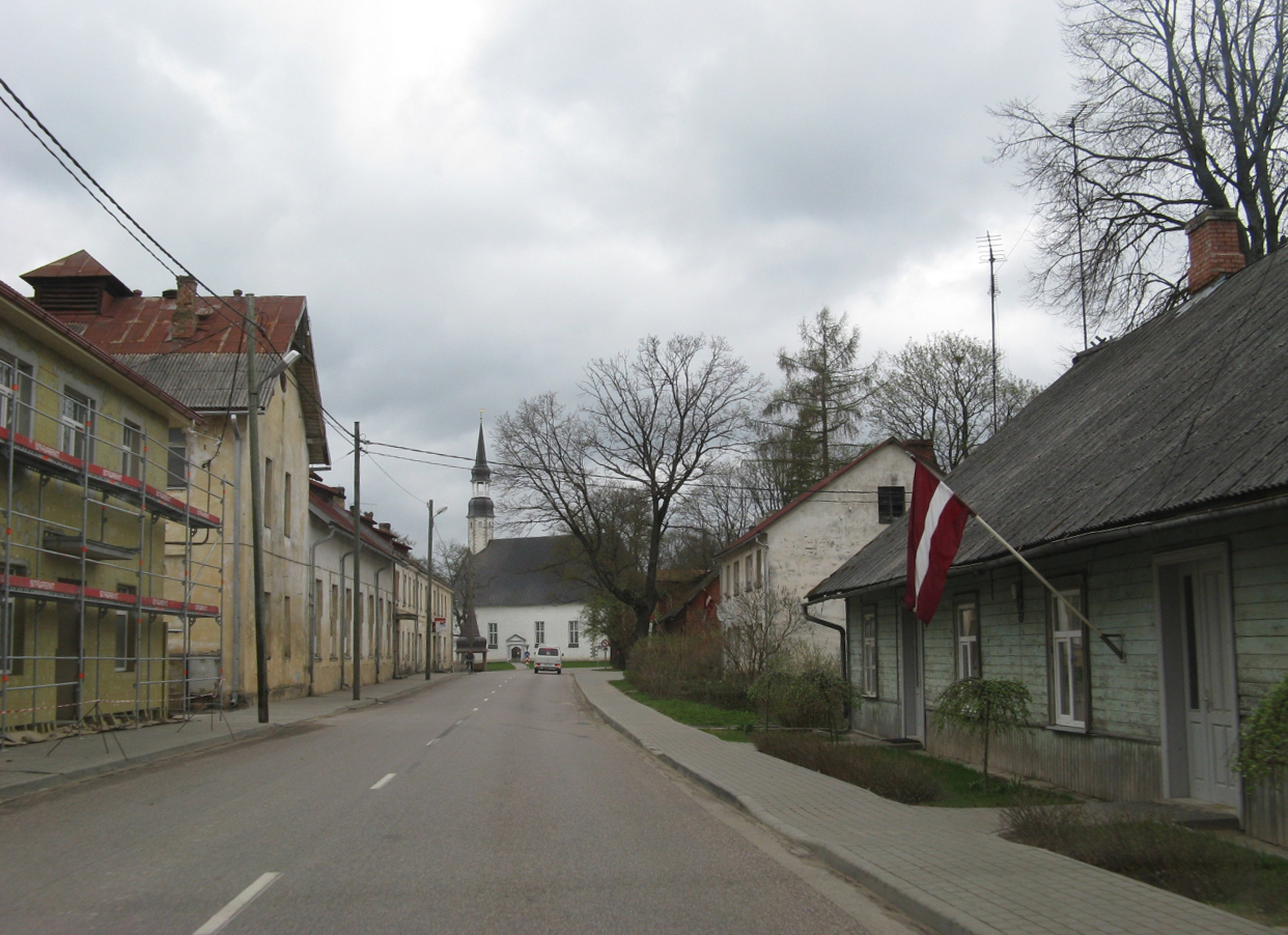 Main street in Matīši (Road P16)